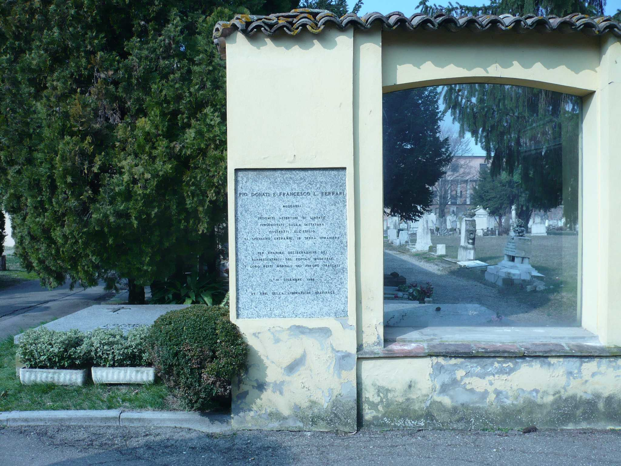 Graves of Pio Donati and Francesco Luigi Ferrari in San Cataldo cemetery in Modena, Italy